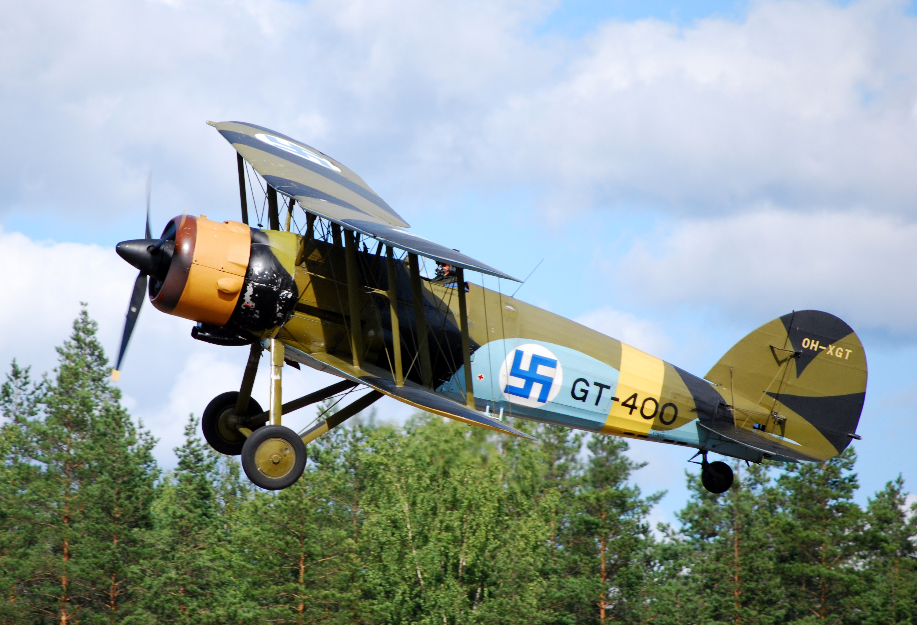 Gloster Gauntlet aircraft (OH-XGT) taking off for display at Selänpää Airfield in Kouvola, Finland